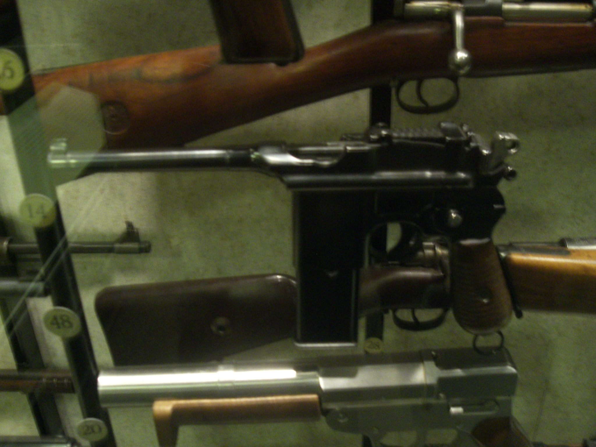 A Mauser C96 Schnellfeuer. Taken at the National Firearms Museum